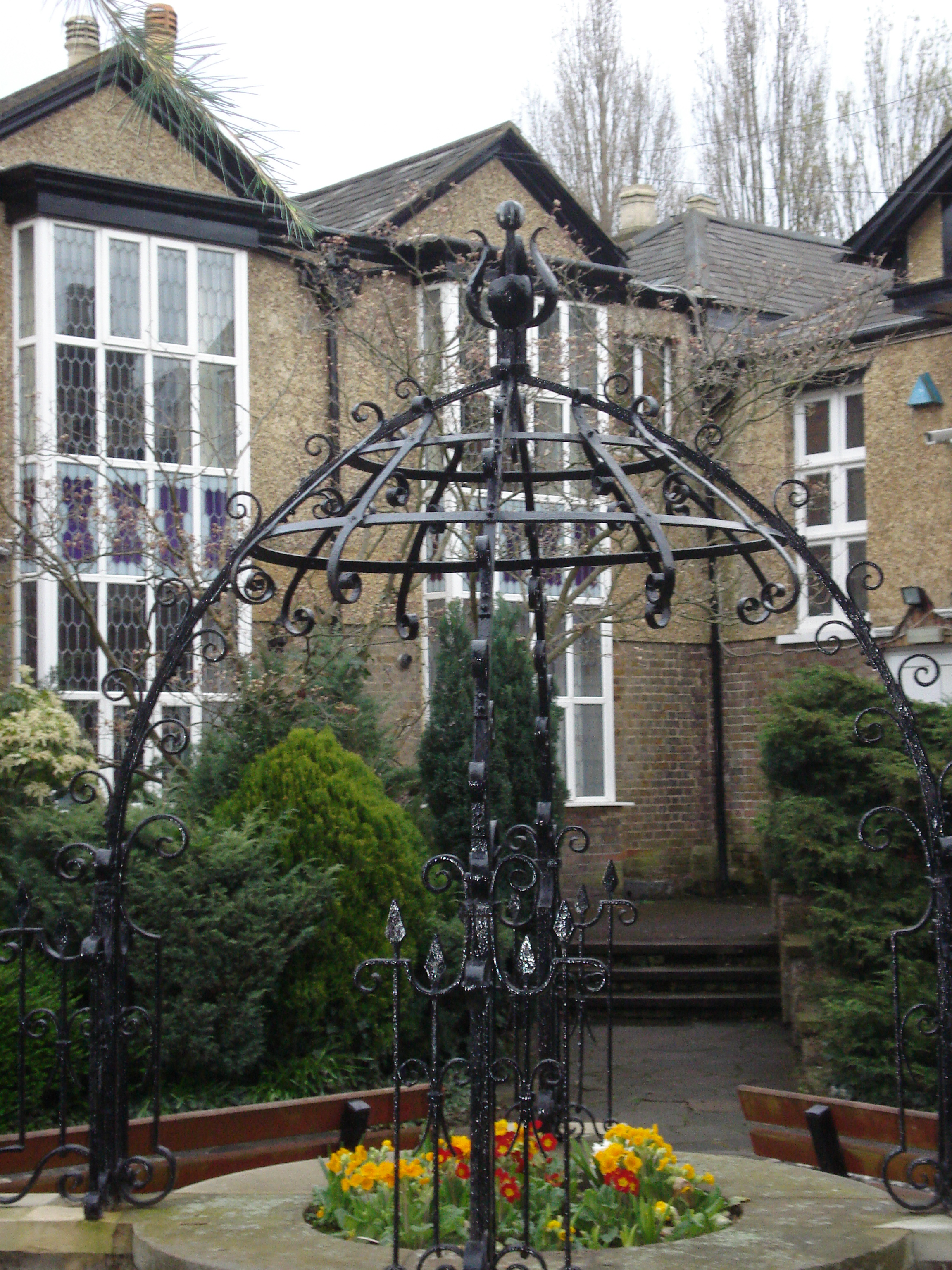 Memorial seating Barham Park Sudbury Town